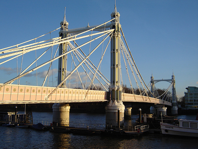 Albert Bridge, River Thames, London, from the north bank. 21 January 2006. Photographer: Fin Fahey.